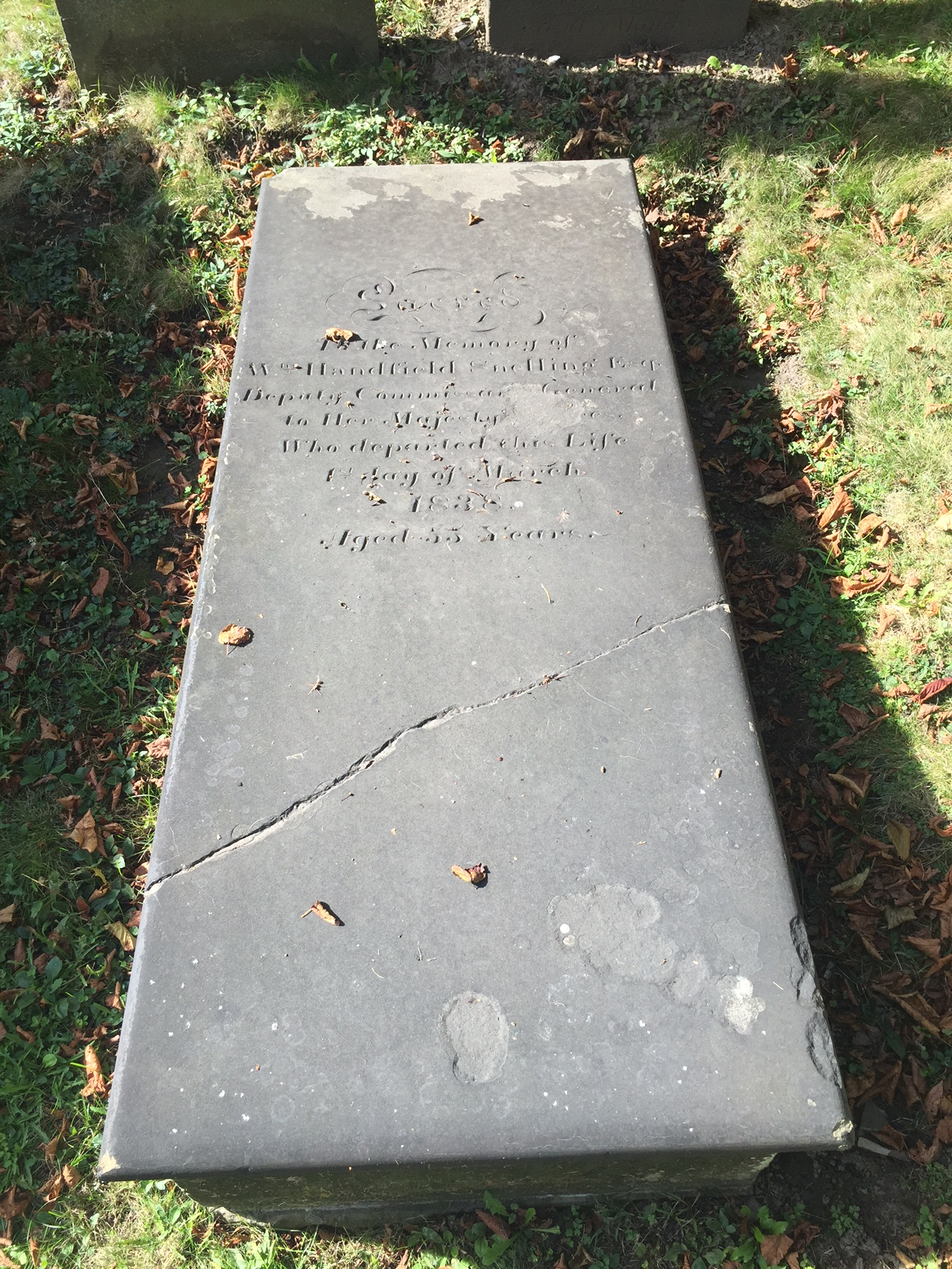 William Handfield Snelling, d. 1838, Halifax, Nova Scotia